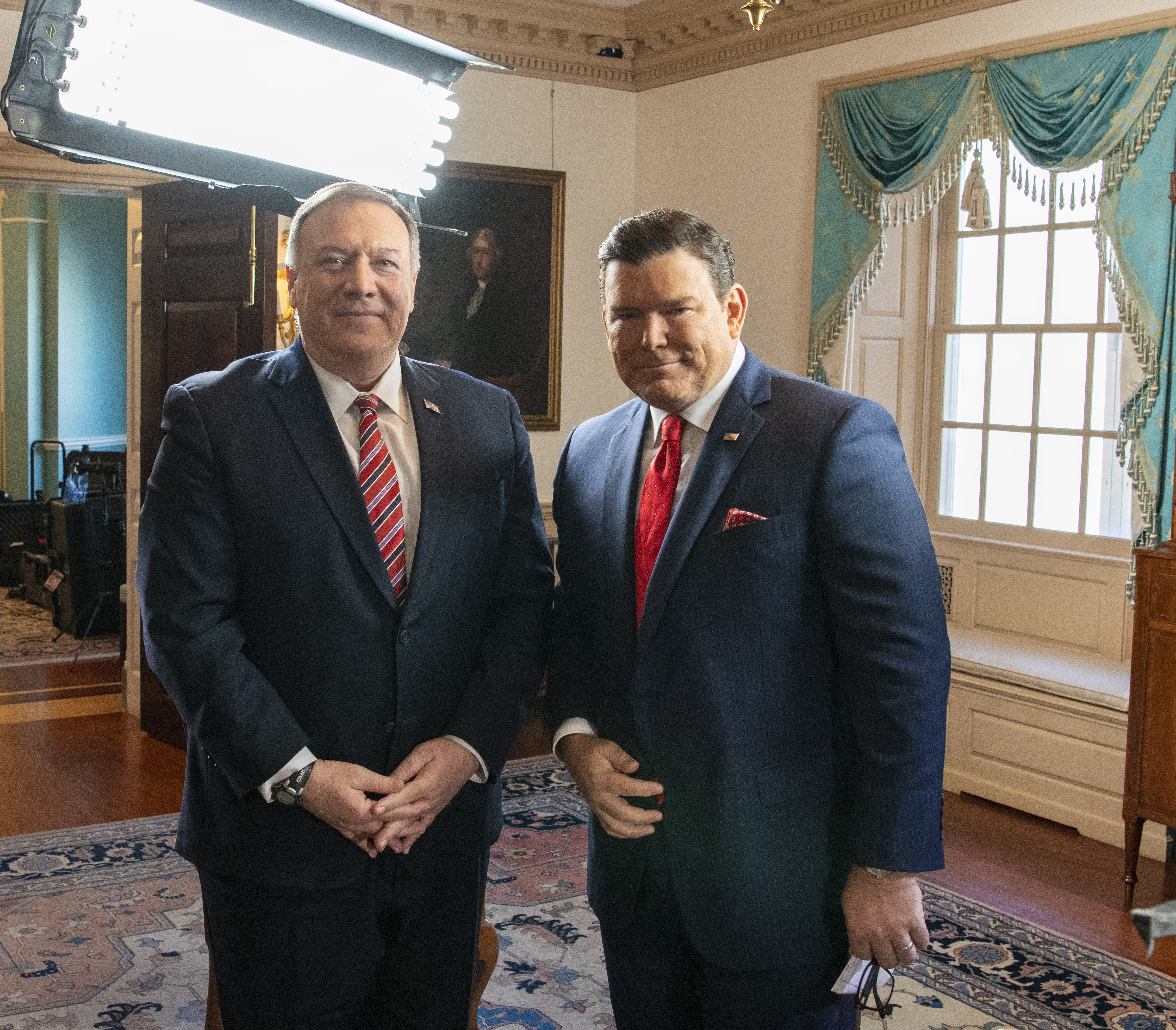 Secretary of State Michael R. Pompeo participates in an interview with Bret Baier of Fox News, at the Department of State, on March 2, 2020. [State Department photo by Freddie Everett/ Public Domain]